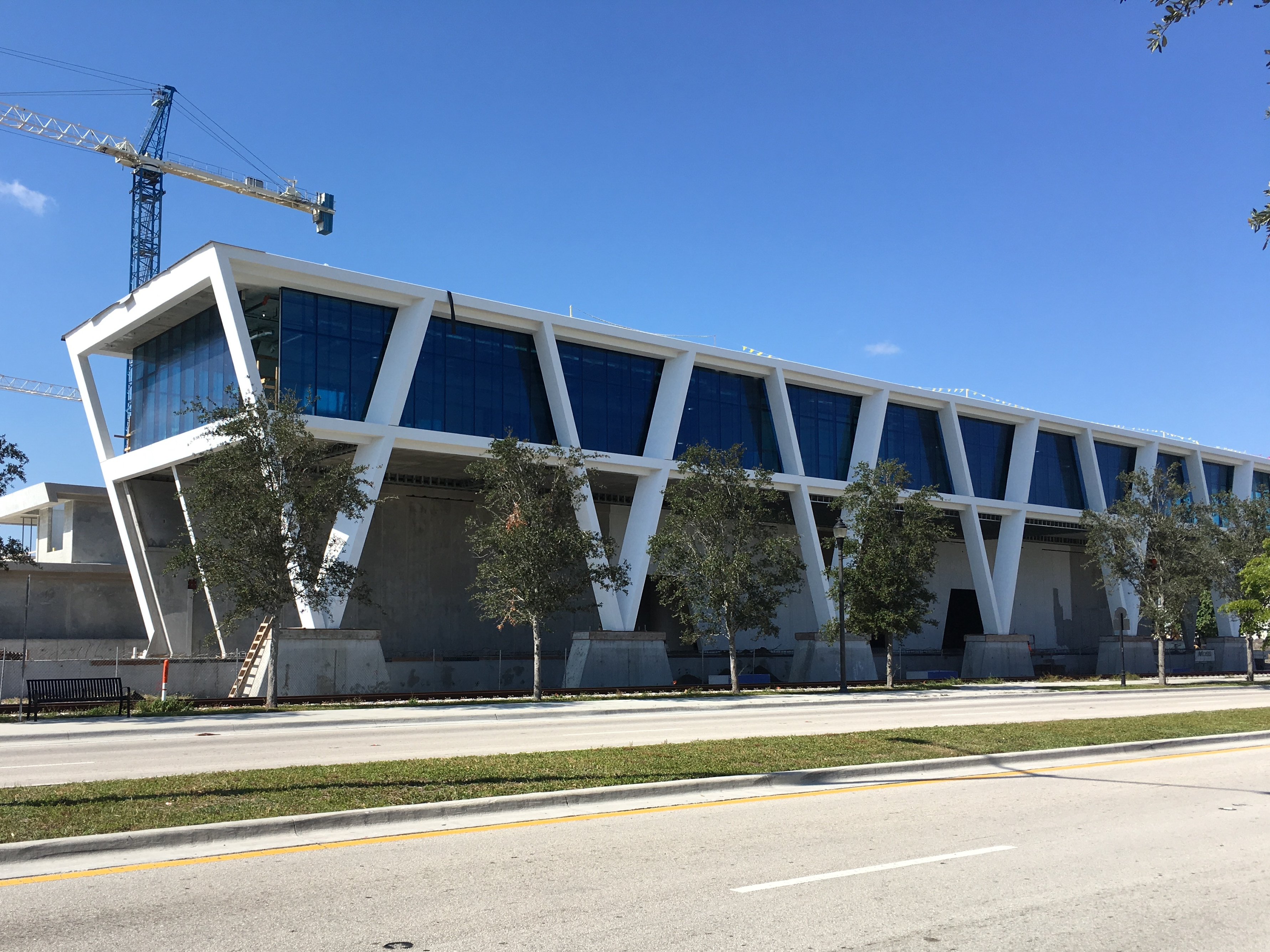 Under construction Brightline station in November 2016.